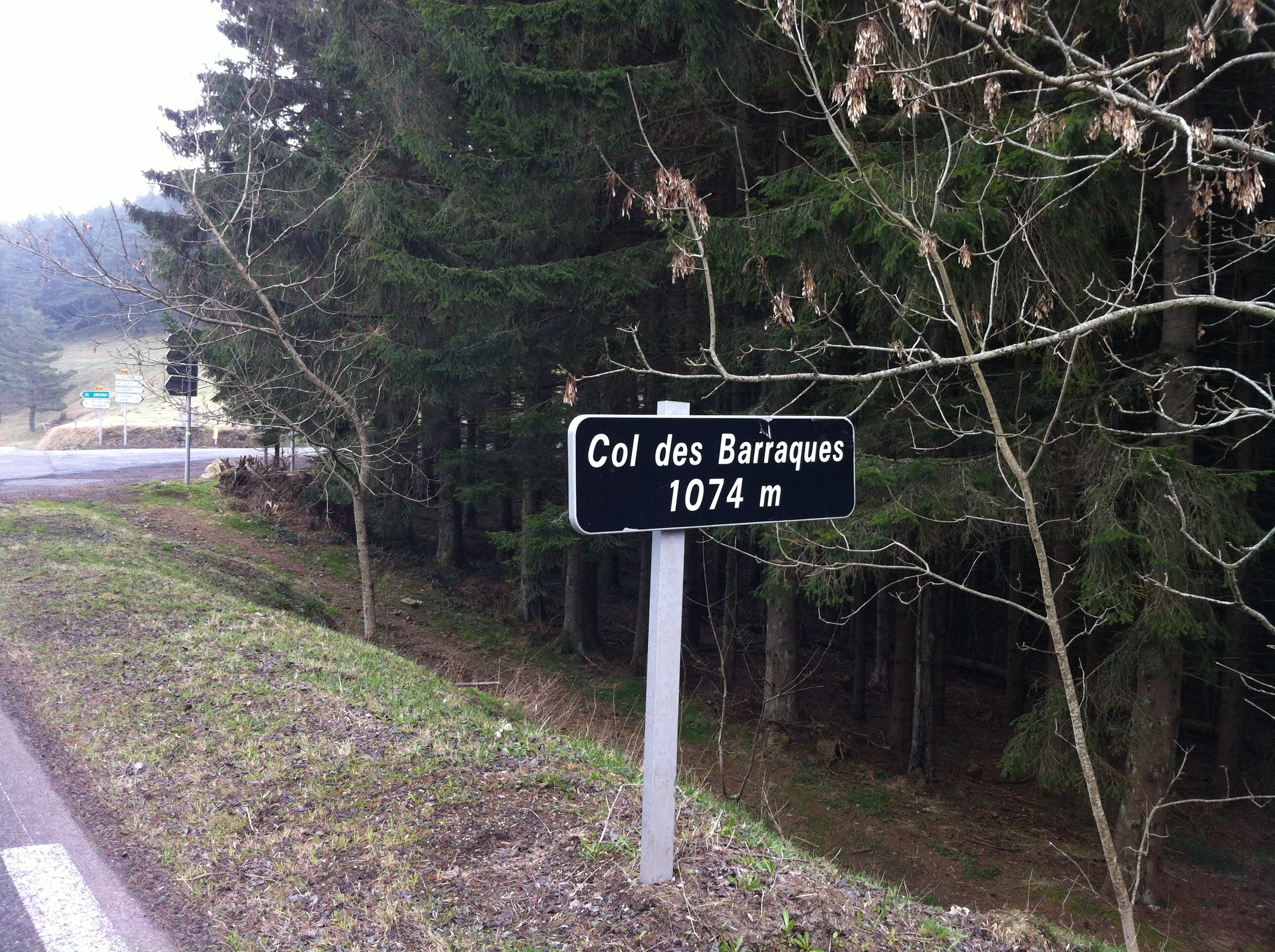 Sign indicating Col des Barraques.